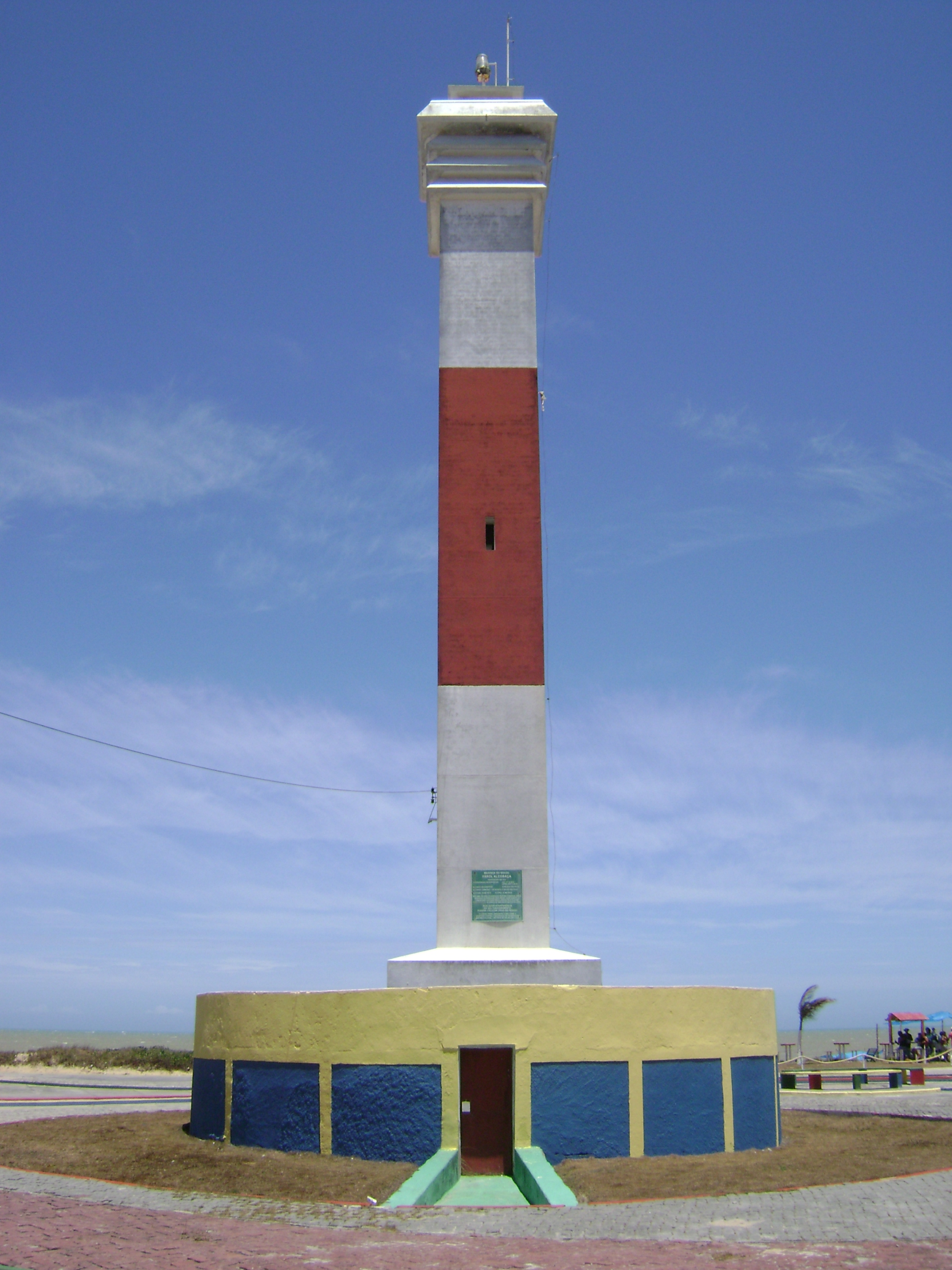 Lighthouse in Alcobaça, Bahia, Brazil.